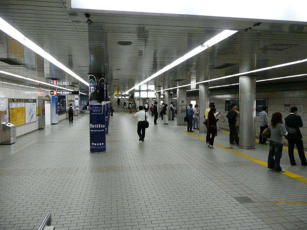 Umeda Station Midosuji Line platform